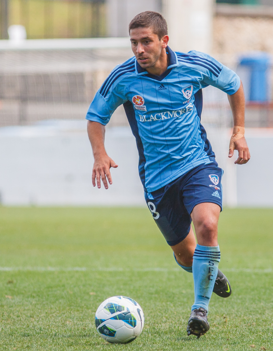 Peter Triantis playing for the Sydney FC National Youth League team in 2012.